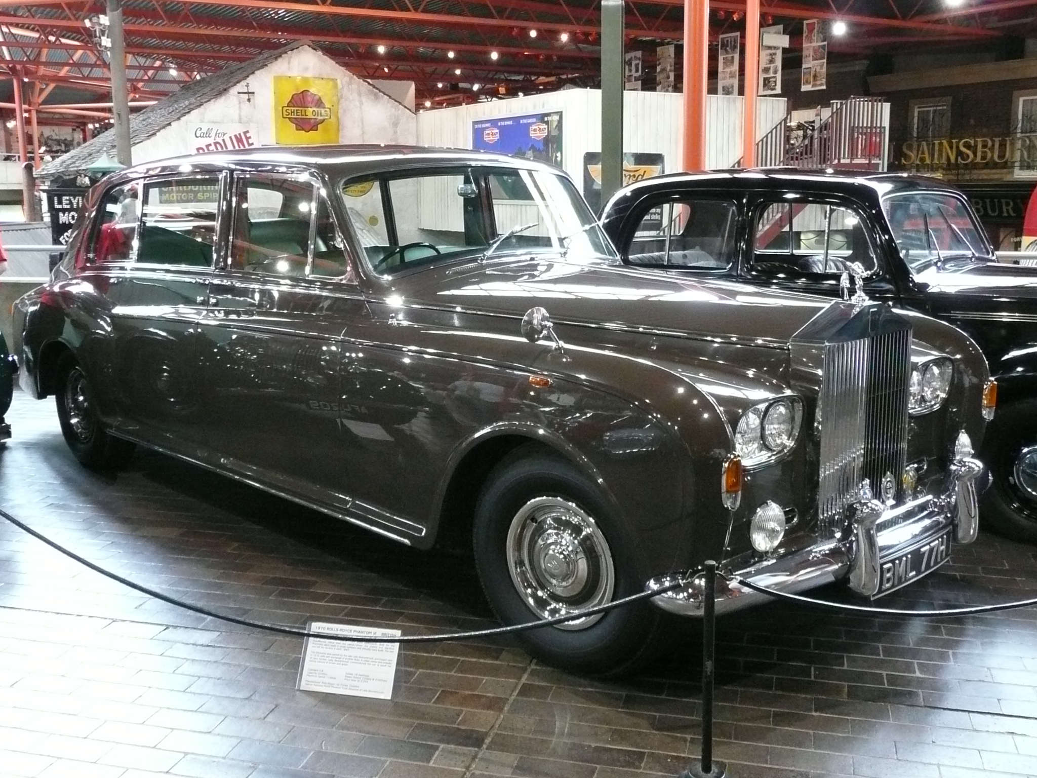 1970 Rolls-Royce Phantom VI, National Motor Museum in Beaulieu.